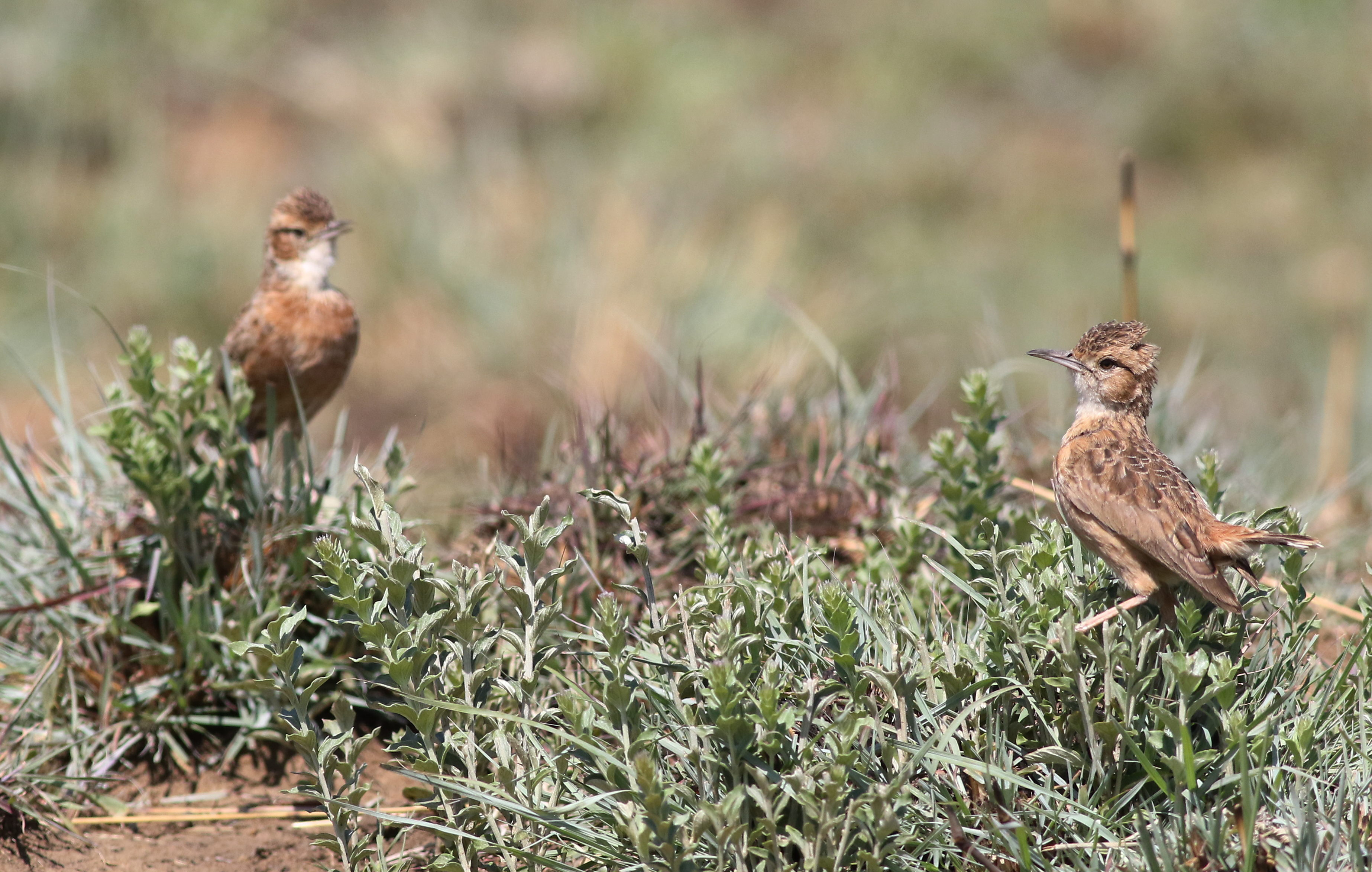 Spike-heeled lark, Chersomanes albofasciata, at Suikerbosrand Nature Reserve, Gauteng, South Africa